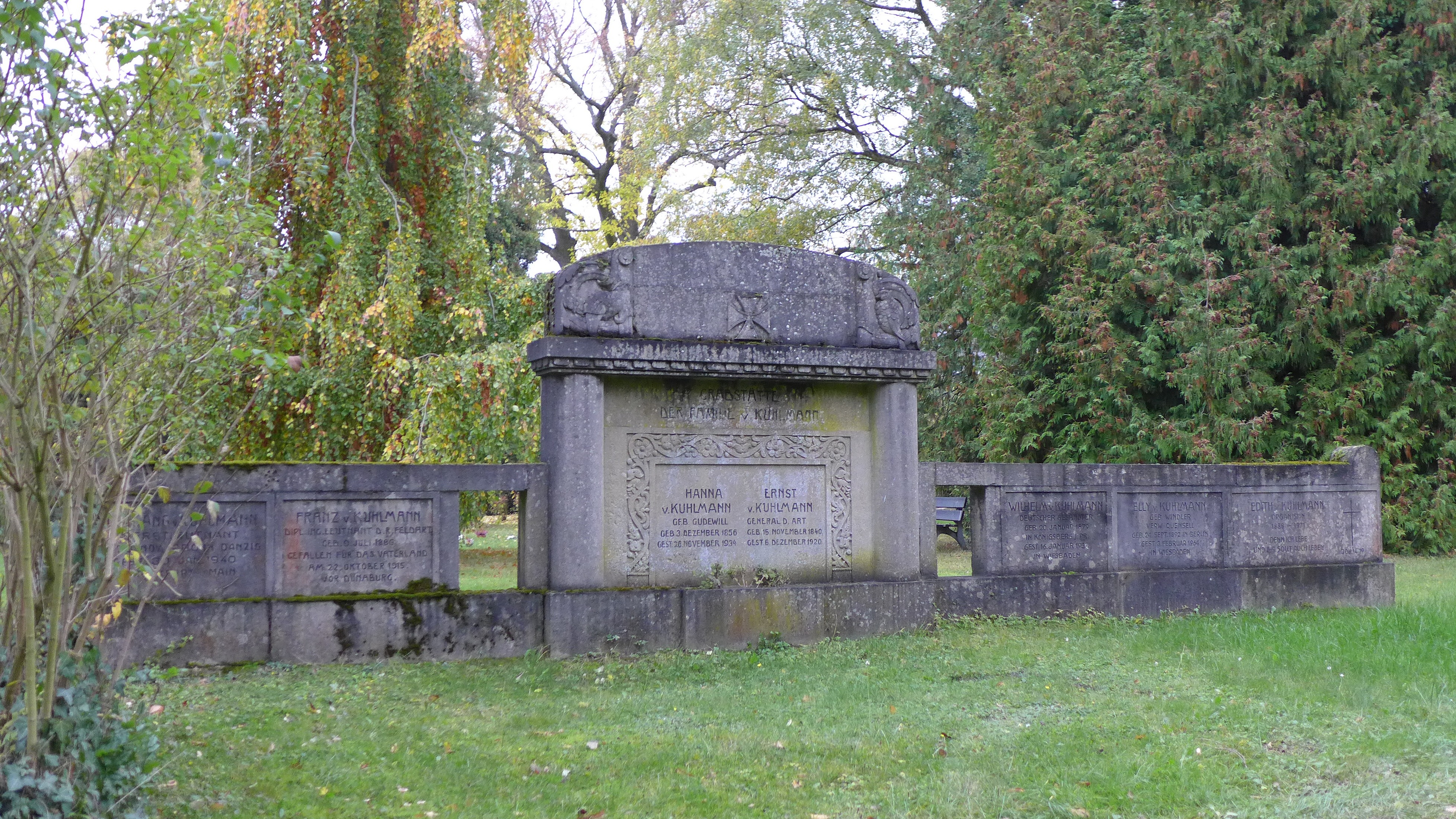 Kuhlmann family